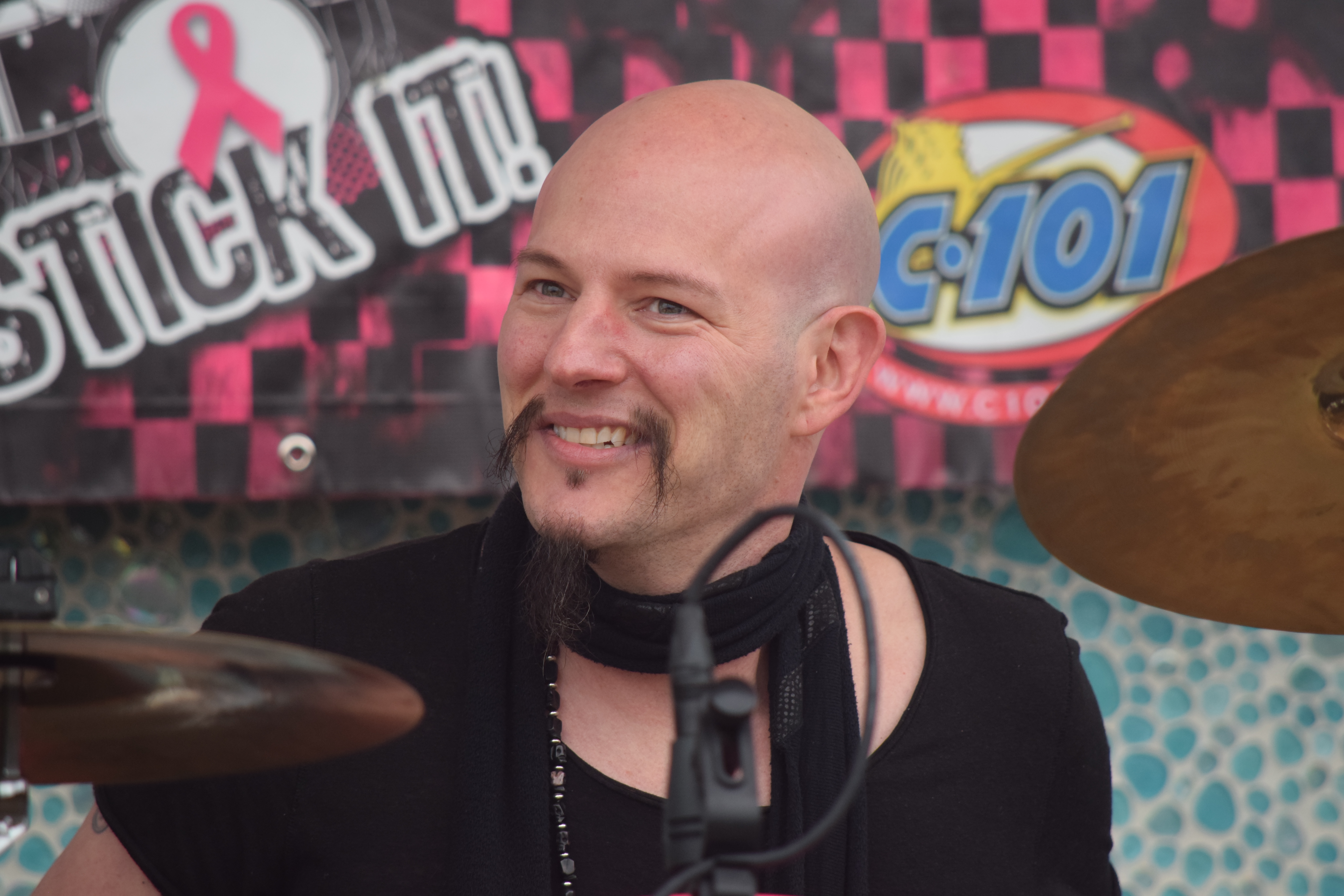 Matt Starr performing at a charity event near Dallas in October 2015